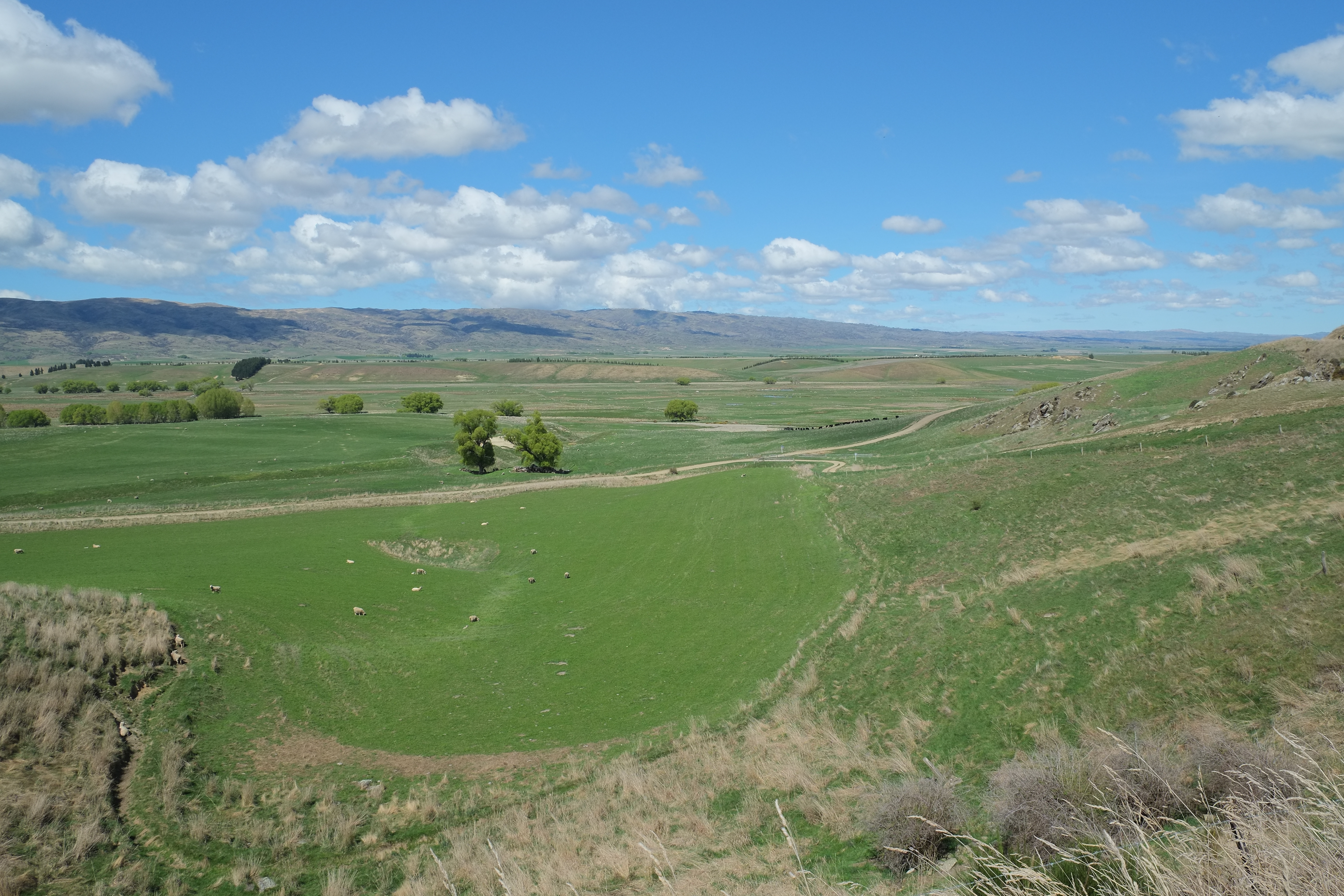 View over Ida Valley from Otago Central Rail Trail